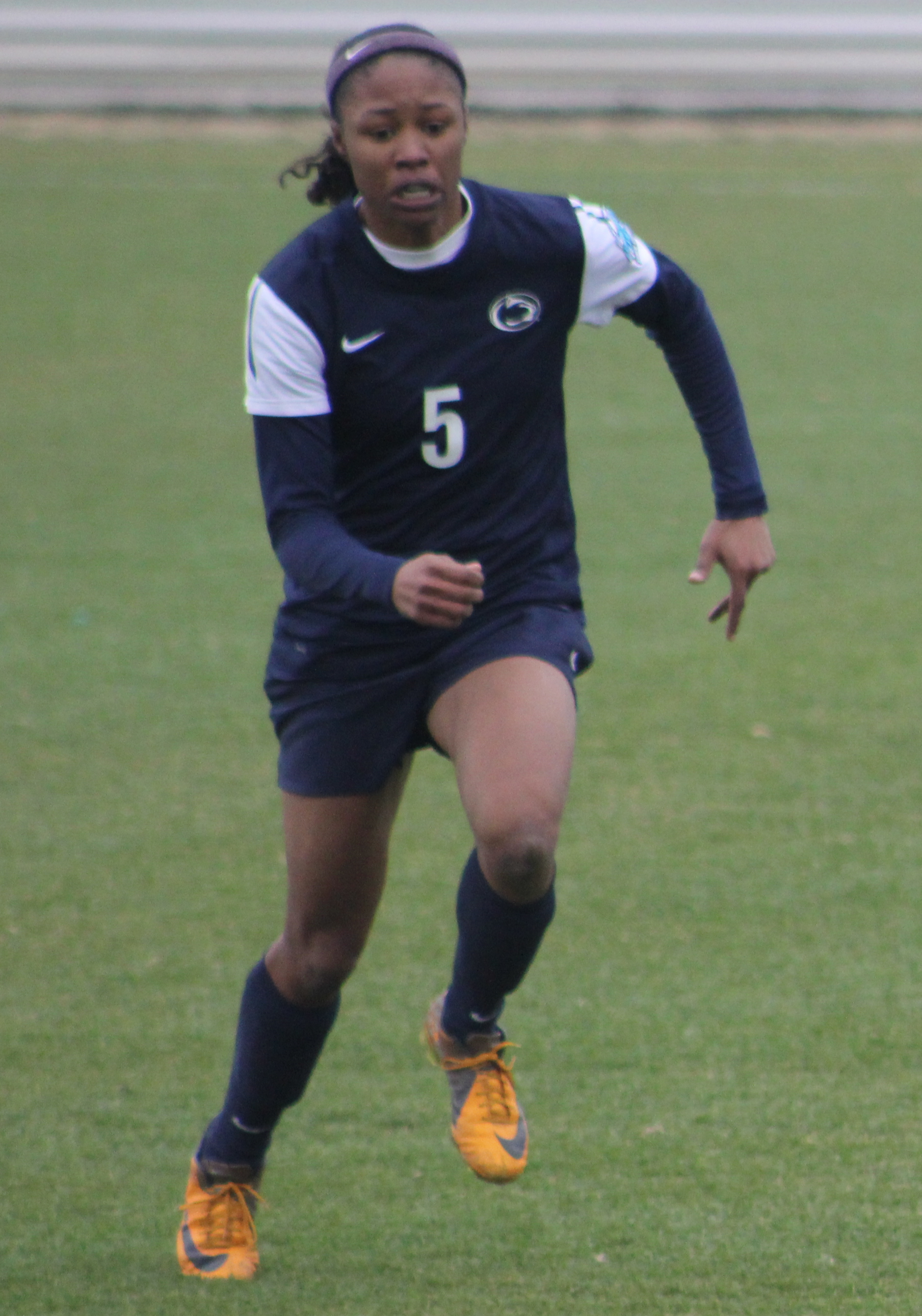 Maya Hayes (Penn State Nittany Lions)